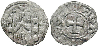 Anonymous. Politikon Coinage. Circa 1328-1354. Billon Tornese (0.51 gm). Constantinople mint. +POLITIKON, cross potent City walls with four towers; cross and pellets above, florets at sides. DOC V 1209; Bendall 362; SB 2578. Byzantine currency CNG notes (631745): The current status of our understanding of the Politikon coinage, issued both anonymously and in the name of the Byzantine emperors Andronicus III and John V, has been summarized by Grierson in DOC V. Although the coins themselves give few clues to their origins, they undoubtedly were connected to the increasing western presence in Constantinople. By the 14th century the city held several foreign enclaves, especially of Venice and Genoa, which in many ways operated as independent territories of their homeland. Perhaps one or more of these communities took it upon themselves to issue a special currency for their own use, and the presence or absence of an imperial type depended on their relationship with the imperial throne.